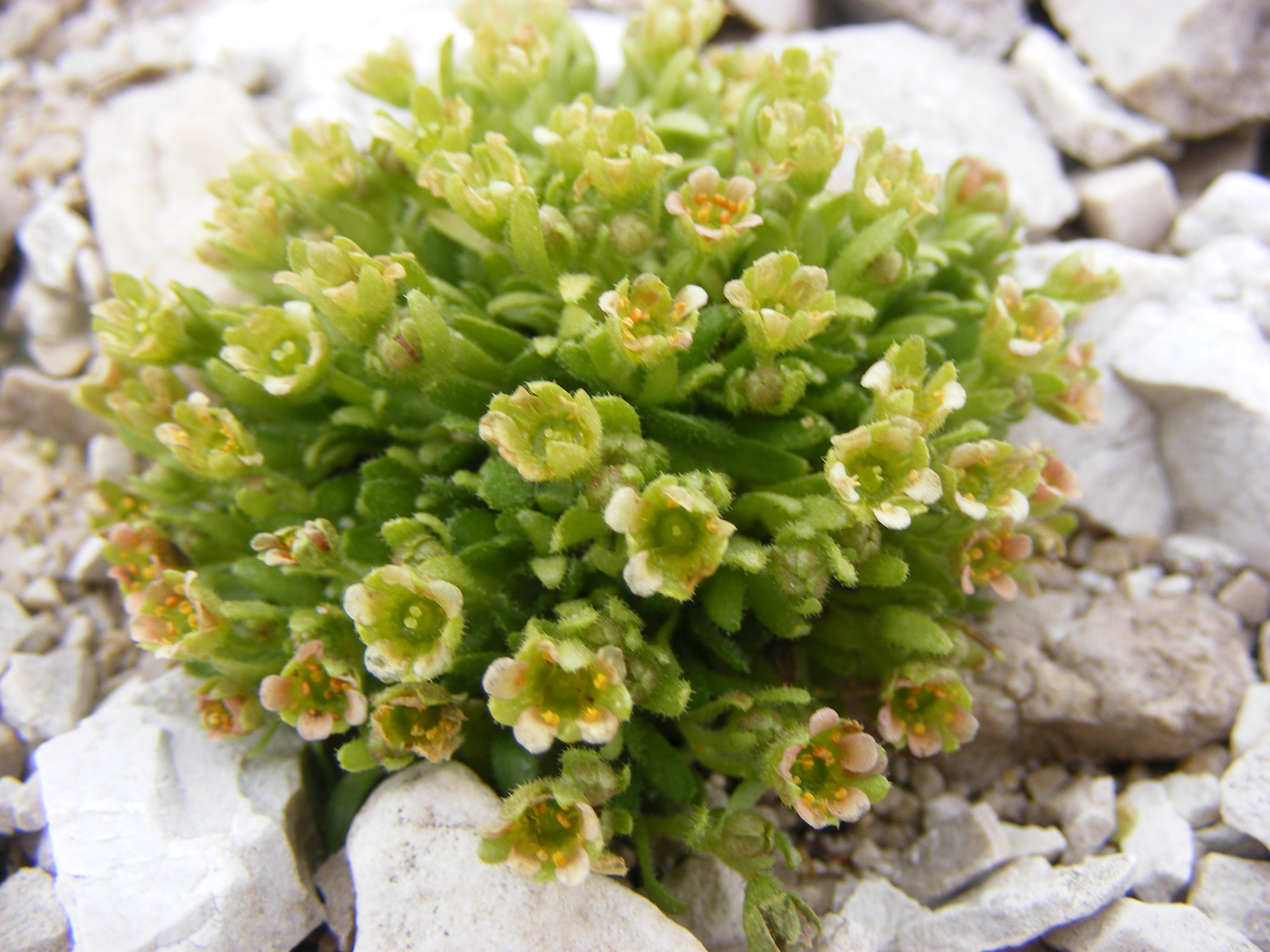 This photo shows Saxifraga facchini. I took this photo in the Dolomites